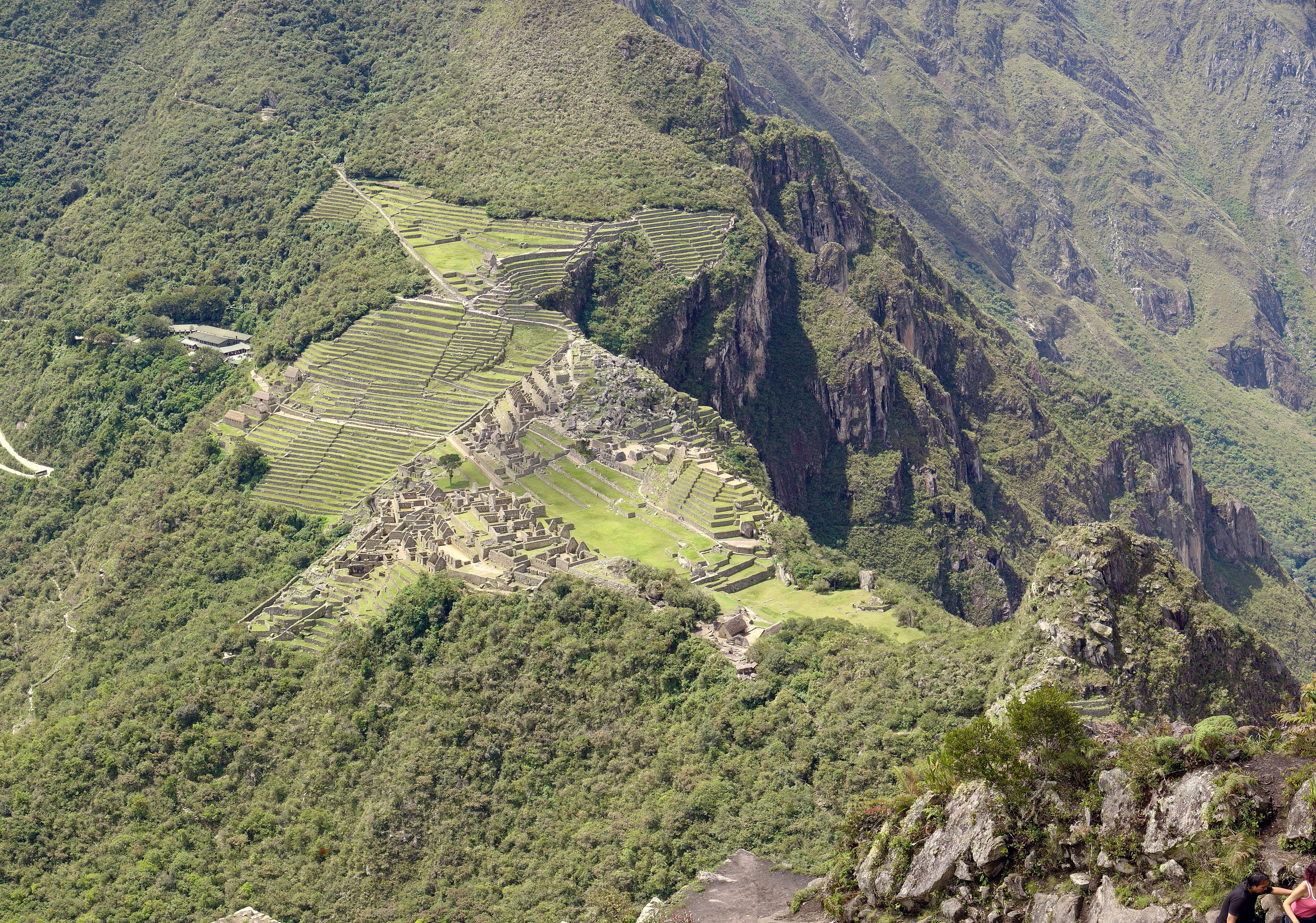 View of Machu Picchu from Huayna Picchu. Panorama created with the Hugin computer program